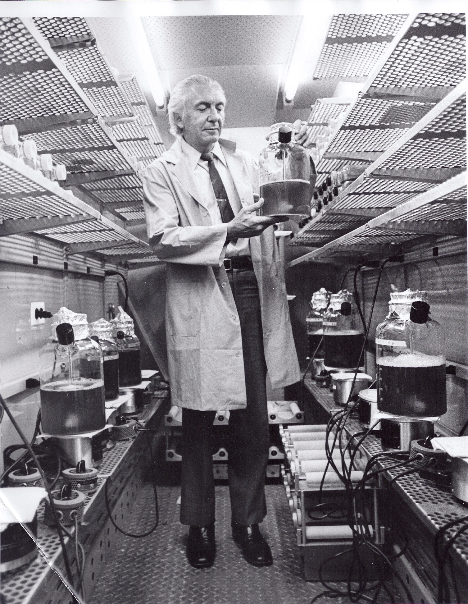 s